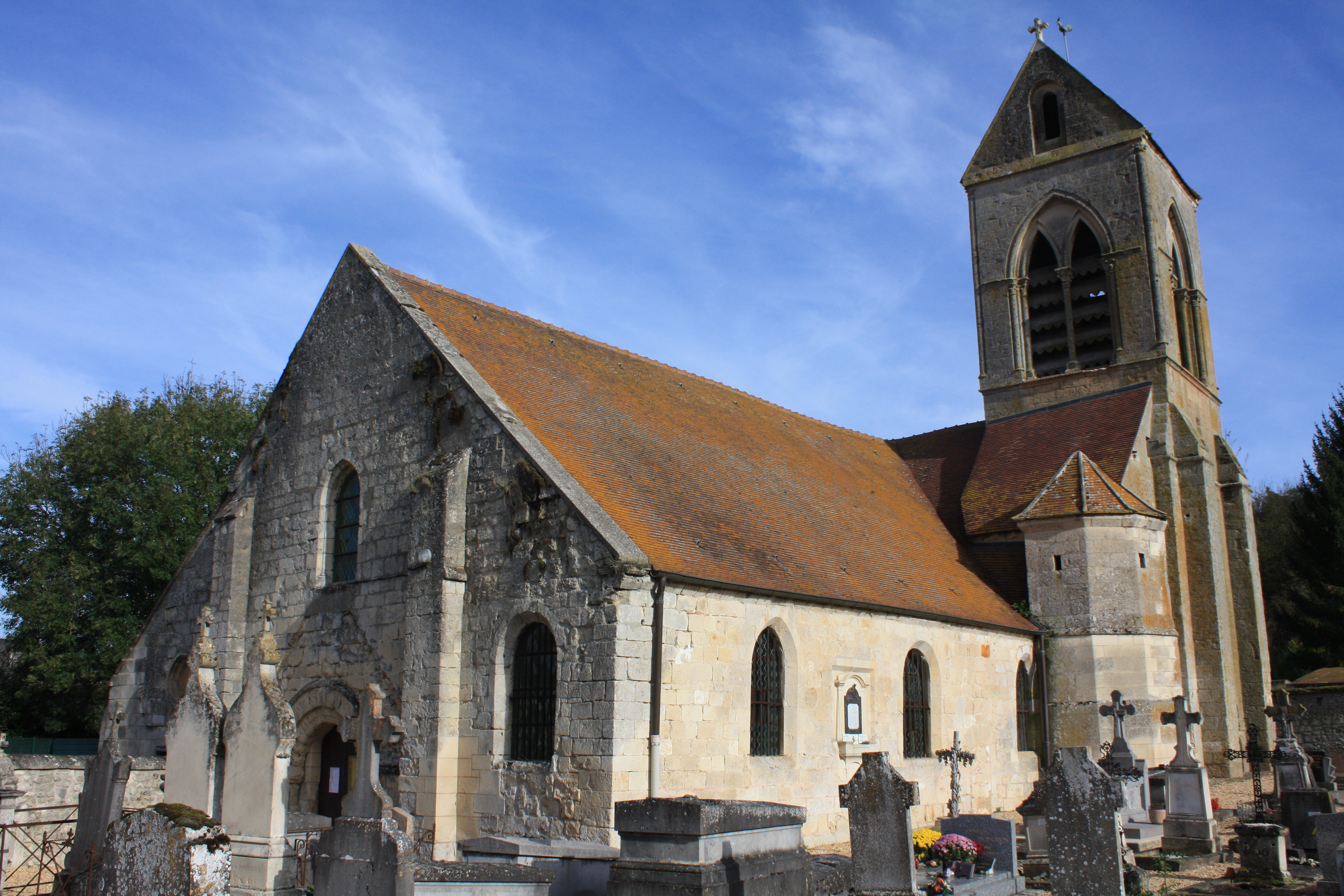 Église Saint-Martin de Maast-et-Violaine 5